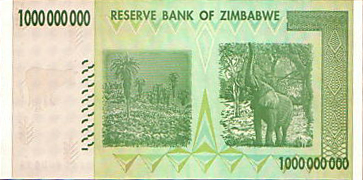 This is the reverse of the 1 billion Zimbabwean dollars of 2008.